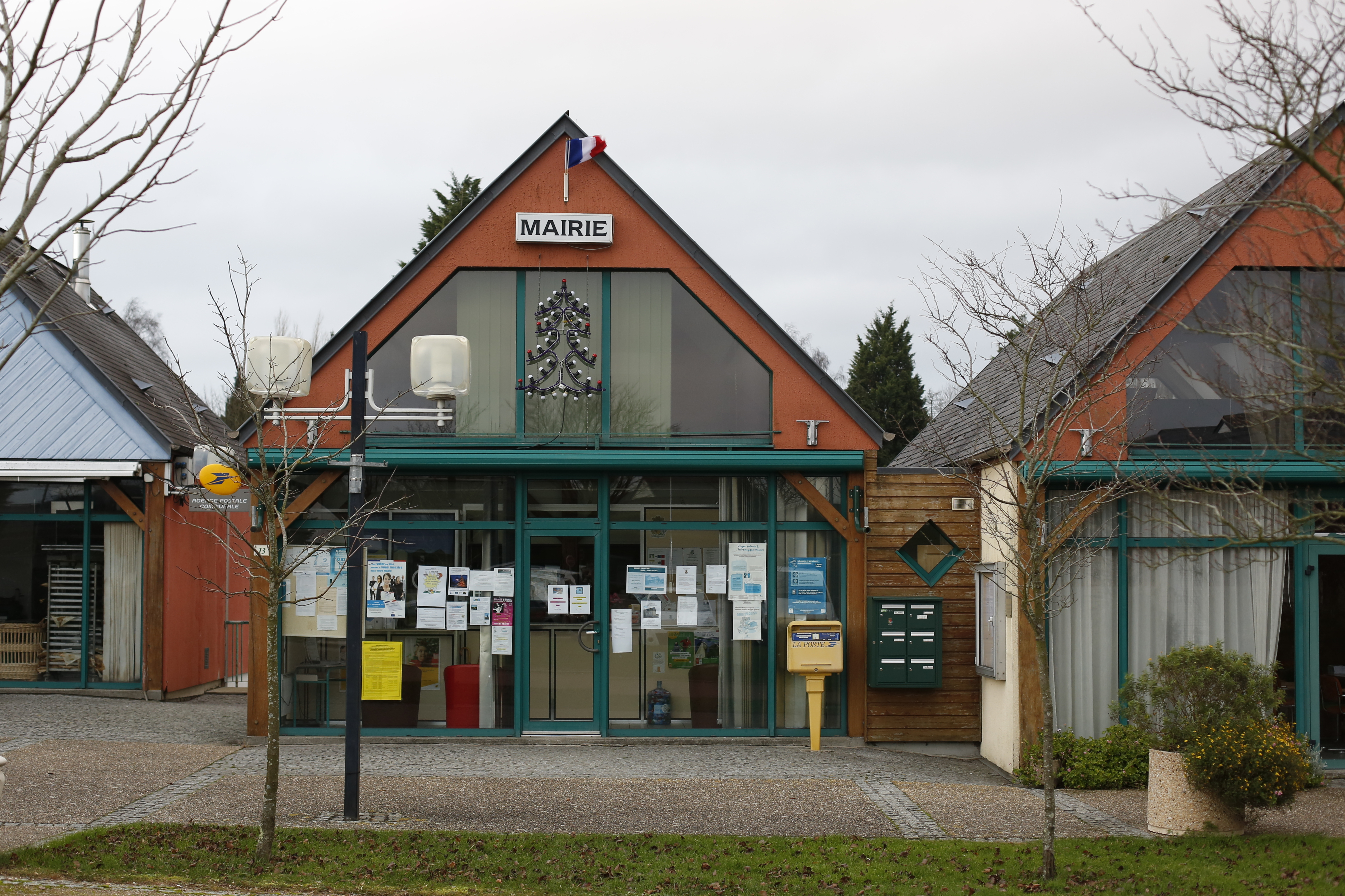 Town hall of Turretot.